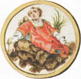 Coat of Arms of Radaškovičy (1792)